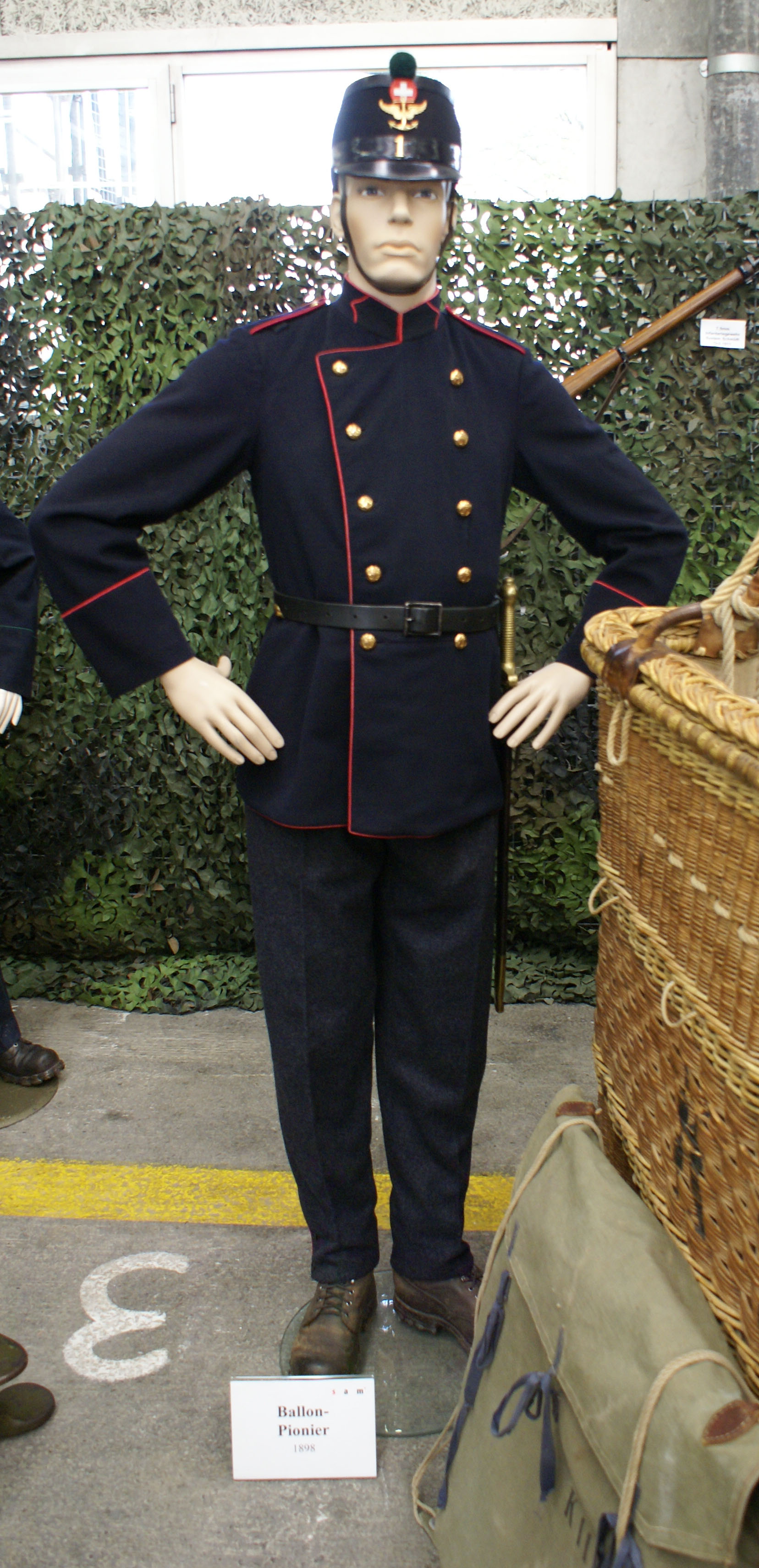 Swiss Army. Balloon pioneer in the 1898 uniform. Swiss Army Museum.